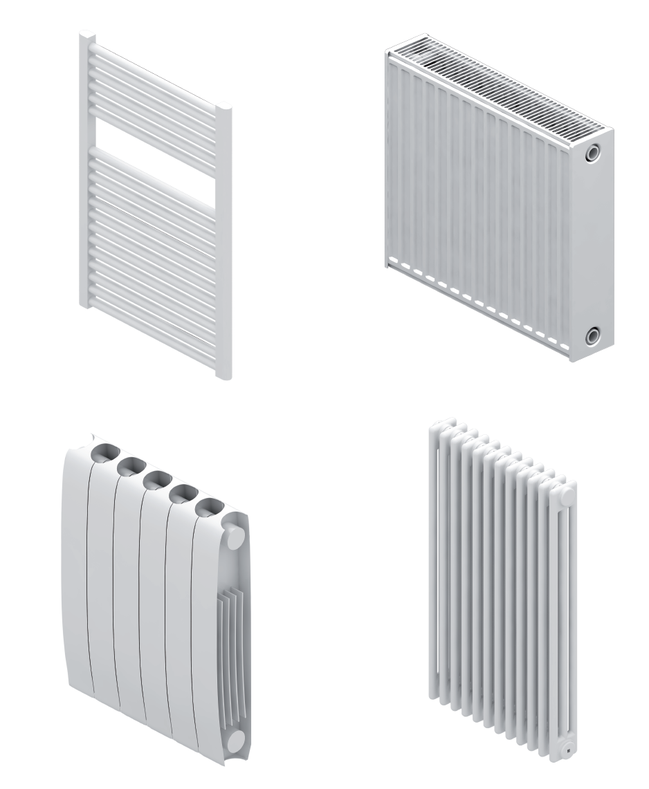 Four versions of radiators, respectively, starting from the top left: towel rails radiator, steel pannel radiator, aluminum radiator and tubular or column radiator.